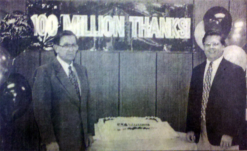 UFCU reaches $100 million in assets and 21,000 members